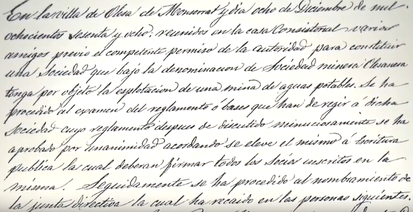 Fragment de l'acta fundacional de la Comunitat Minera Olesana